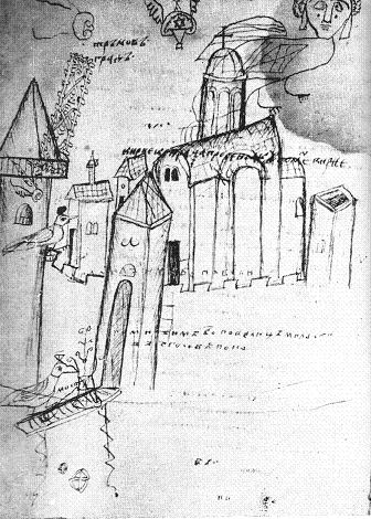 Medieval sketch of Tarnovo in the Braşov Menaion, a menaion service book written in the mid-14th century